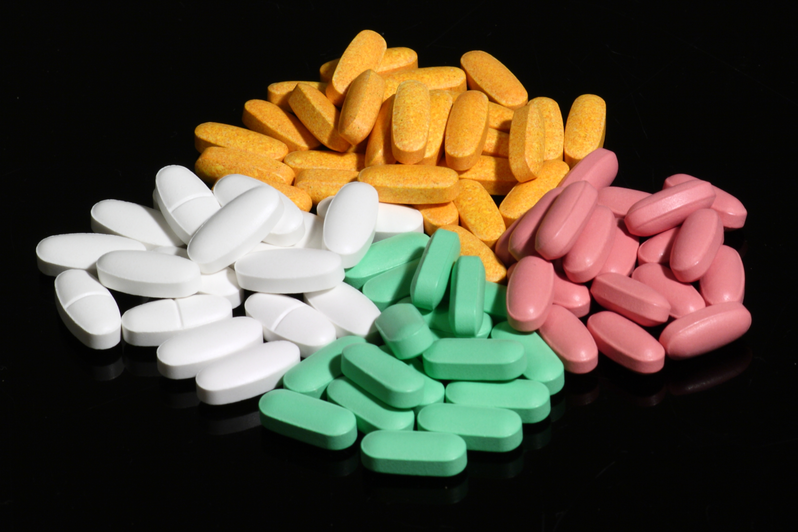 Dietary supplement pills in four colors (orange, pink, blue-green, and white), on a black background